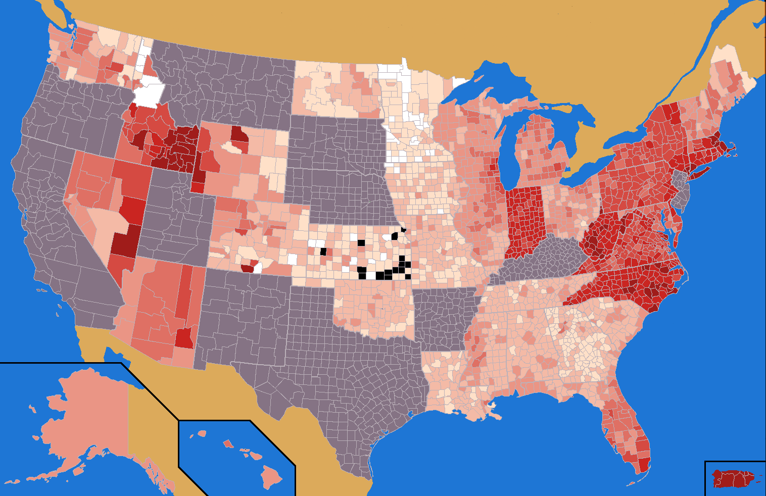 Map of the vote share for Mitt Romney in the Republican Party (United States) presidential primaries, 2012 by county. 70%+ 60-69.9% 50-59.9% 40-49.9% 30-39.9% 20-29.9% 10-19.9% under 10% no votes